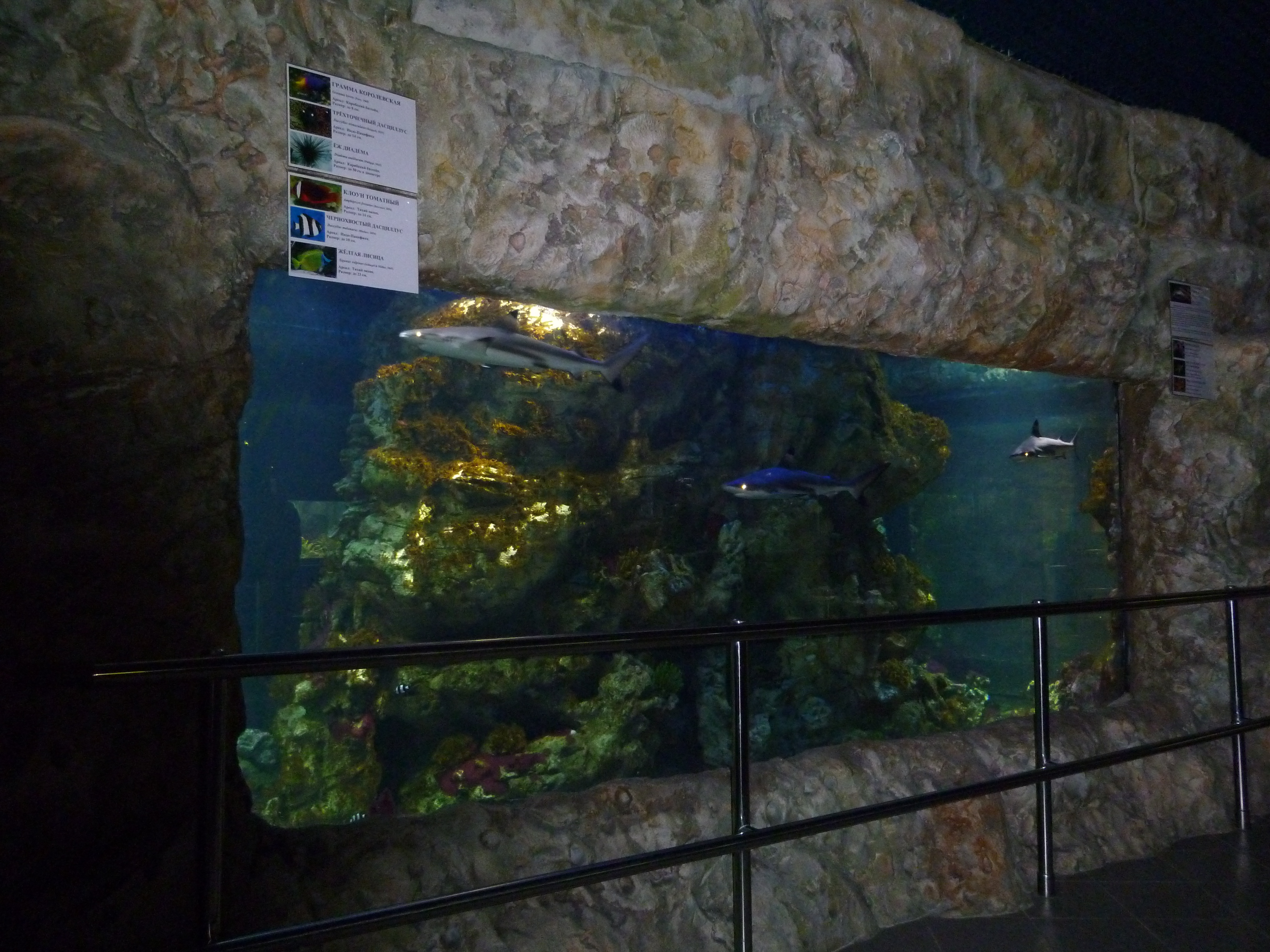 Zoo in krasnojarsk